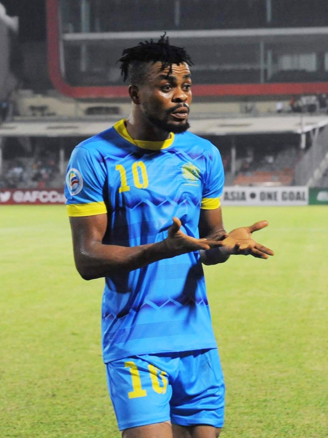 Sunday Chizoba celebrating a goal with Abahani Limited Dhaka in AFC Cup 2019.